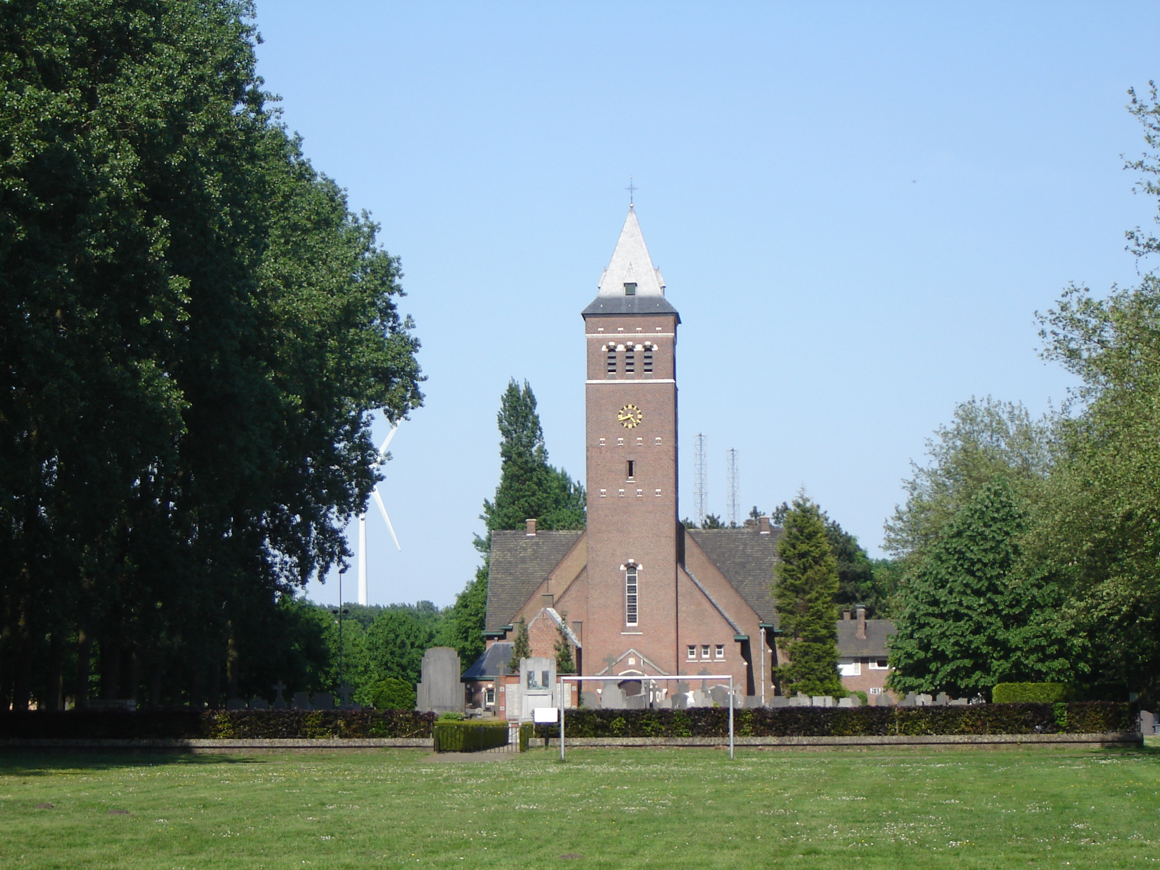 Church of Saint Peter and Saint Paul on the Doornzeledries square in Doornzele. Doornzele, Evergem, East Flanders, Belgium